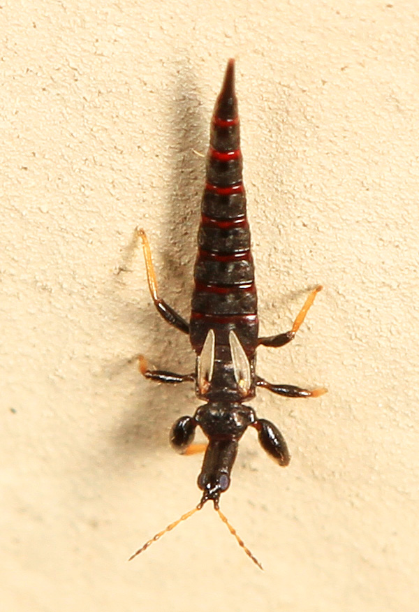 Black Thrips, Smithsonian Environmental Research Center, Edgewater, Maryland